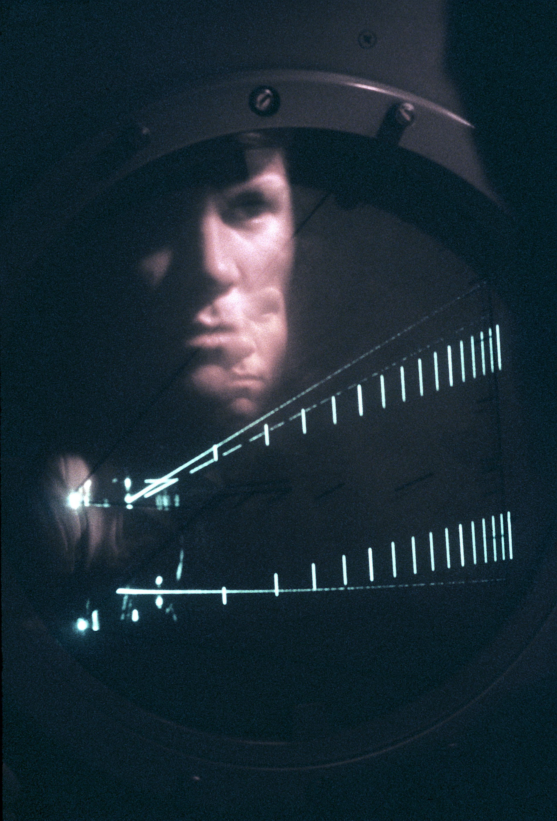 SRA James Calkins, an air traffic controller with the 1974th Communications Group of the Air Force Communications Command (AFCC), is reflected in the precision approach radar scope as he directs an aircraft.Location: SCOTT AIR FORCE BASE, ILLINOIS (IL) UNITED STATES OF AMERICA (USA)